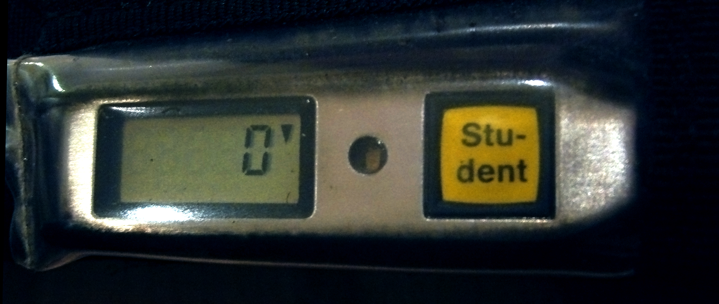 Cypres II panel. Automatic activation device for parachutes: Student-Version.